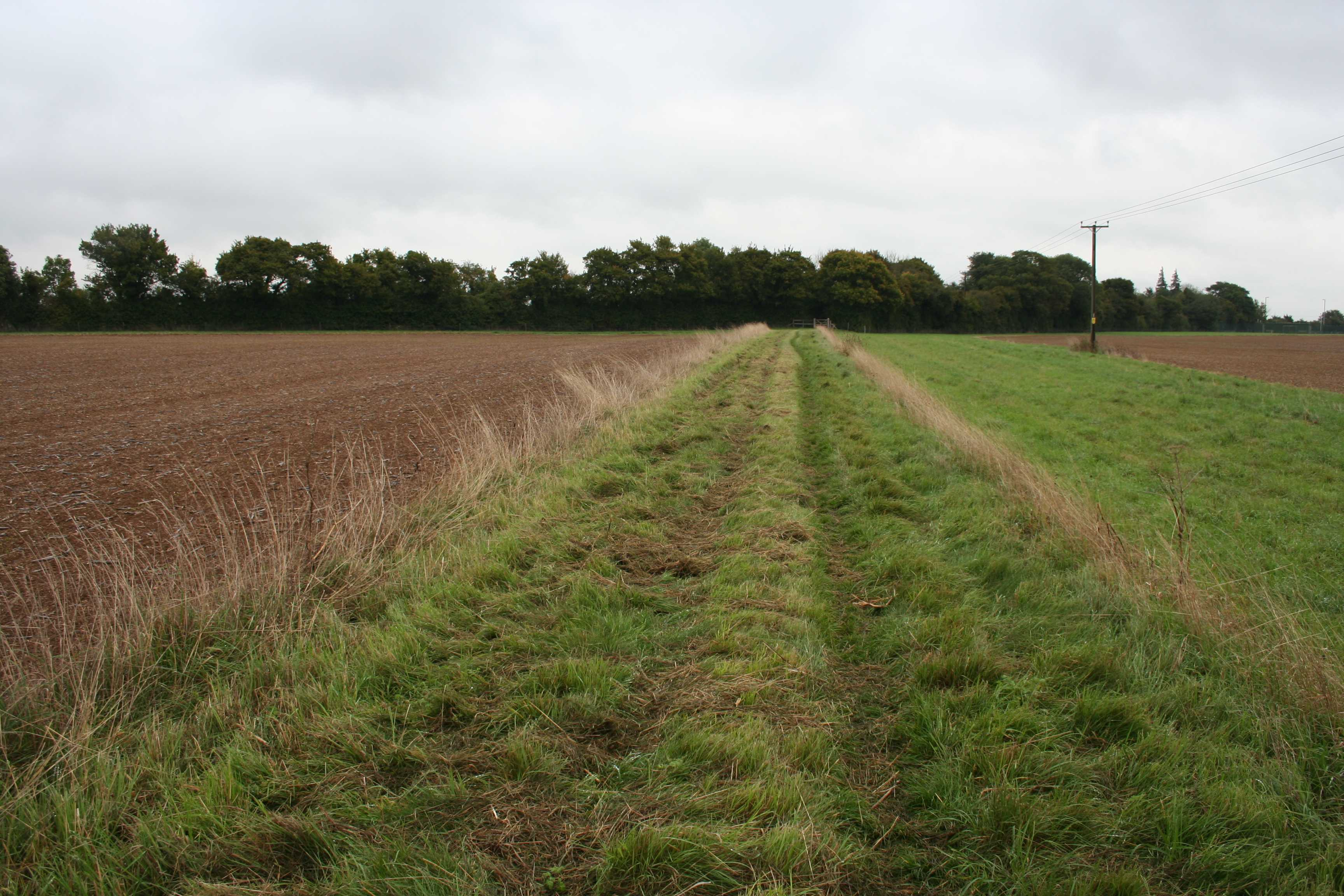 Akeman Street north of Woodstock, Oxon.